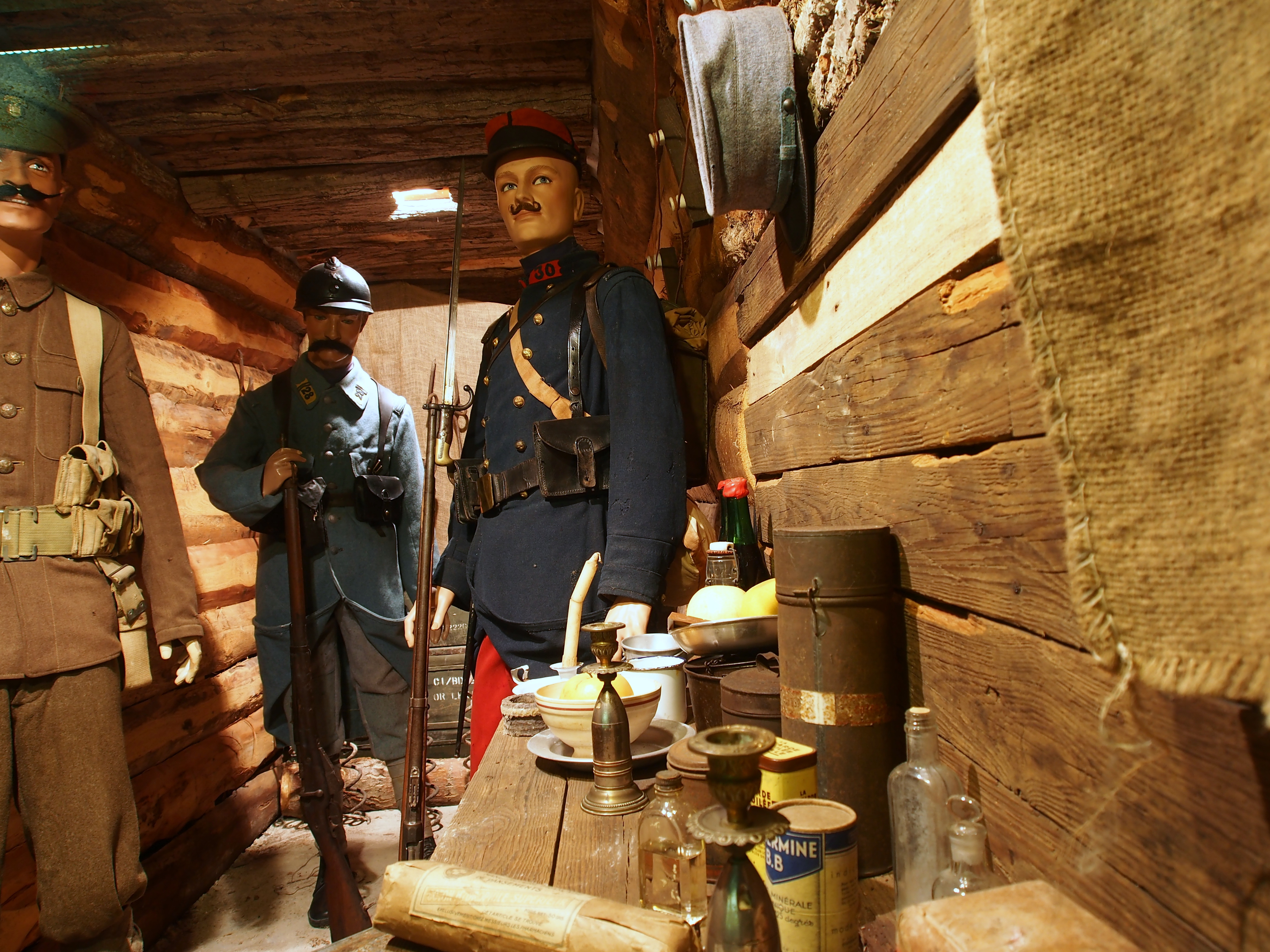 Photographed in the Musée Somme 1916 of Albert (Somme), France.